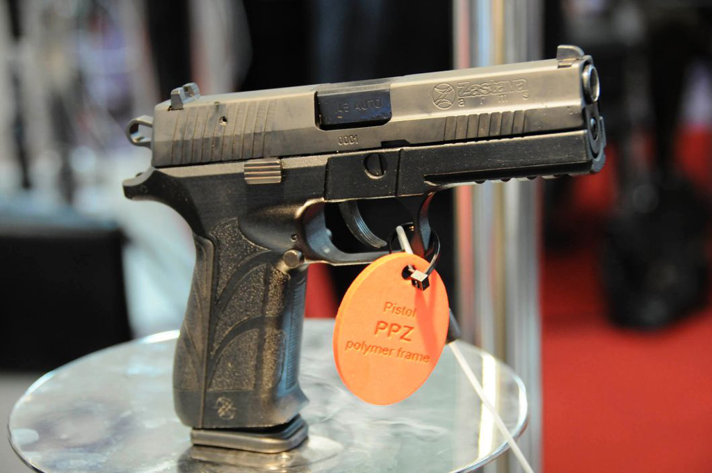 Zastava PPZ prototype unveiled during 2012 IWA Show in Nuremberg